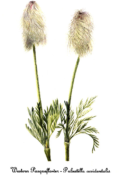 Watercolor painting of Anemone_occidentalis-4.